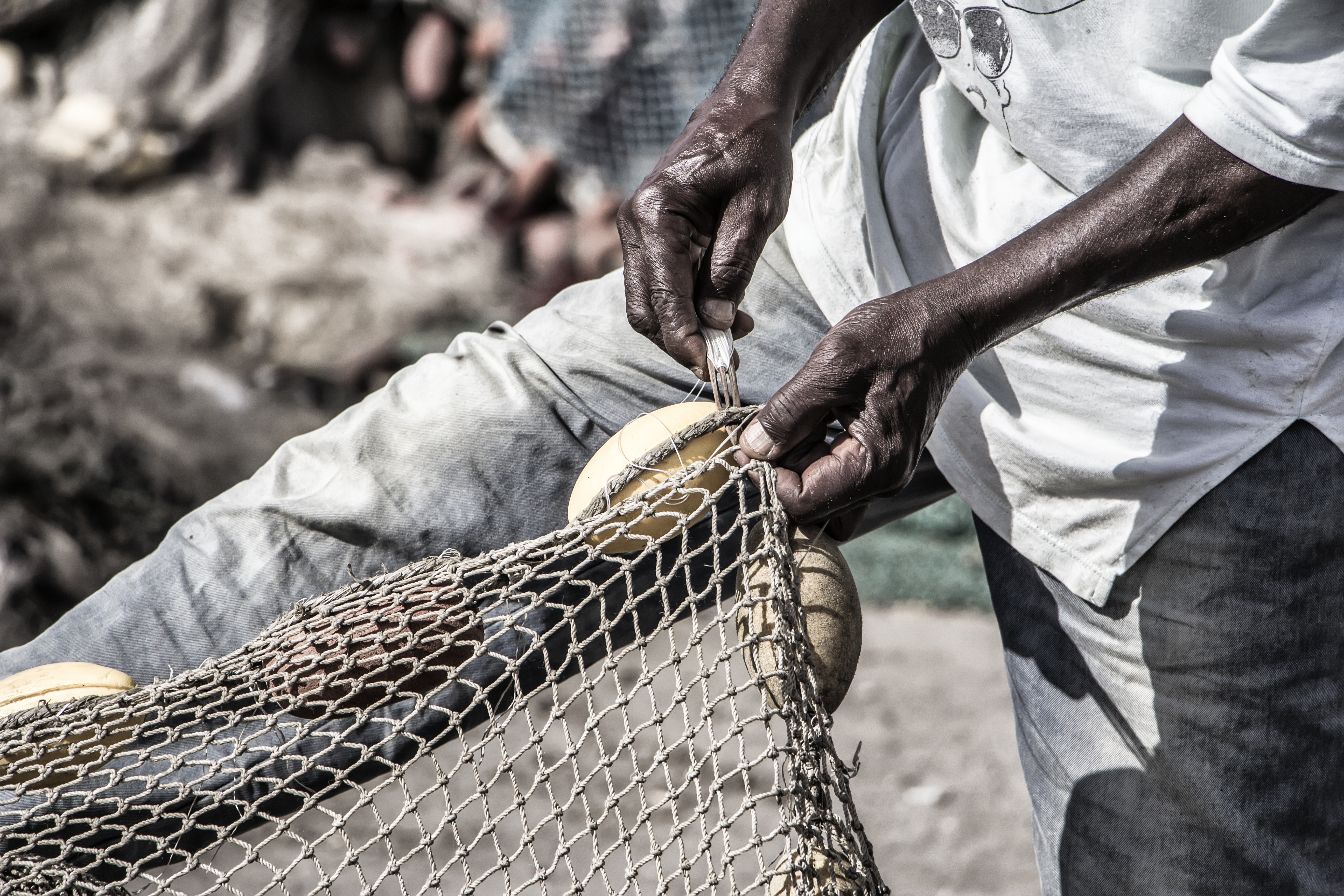 moi et mon filet 1 This is an image of "African people at work" from Guinea